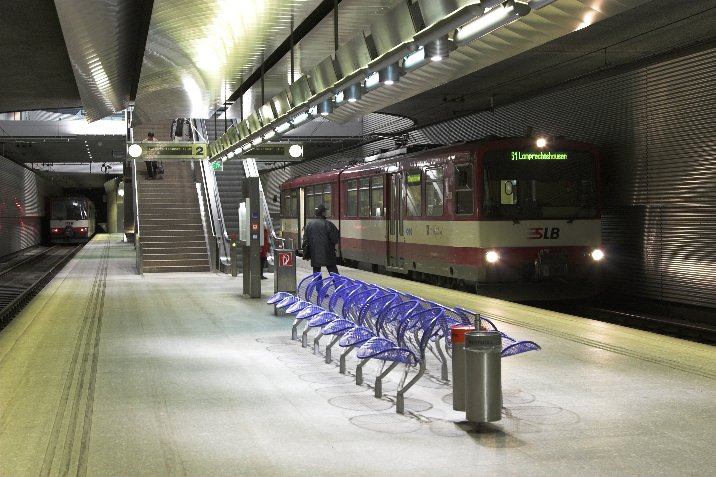 Underground station Salzburg Lokalbahnhof of the Salzburger Lokalbahn.